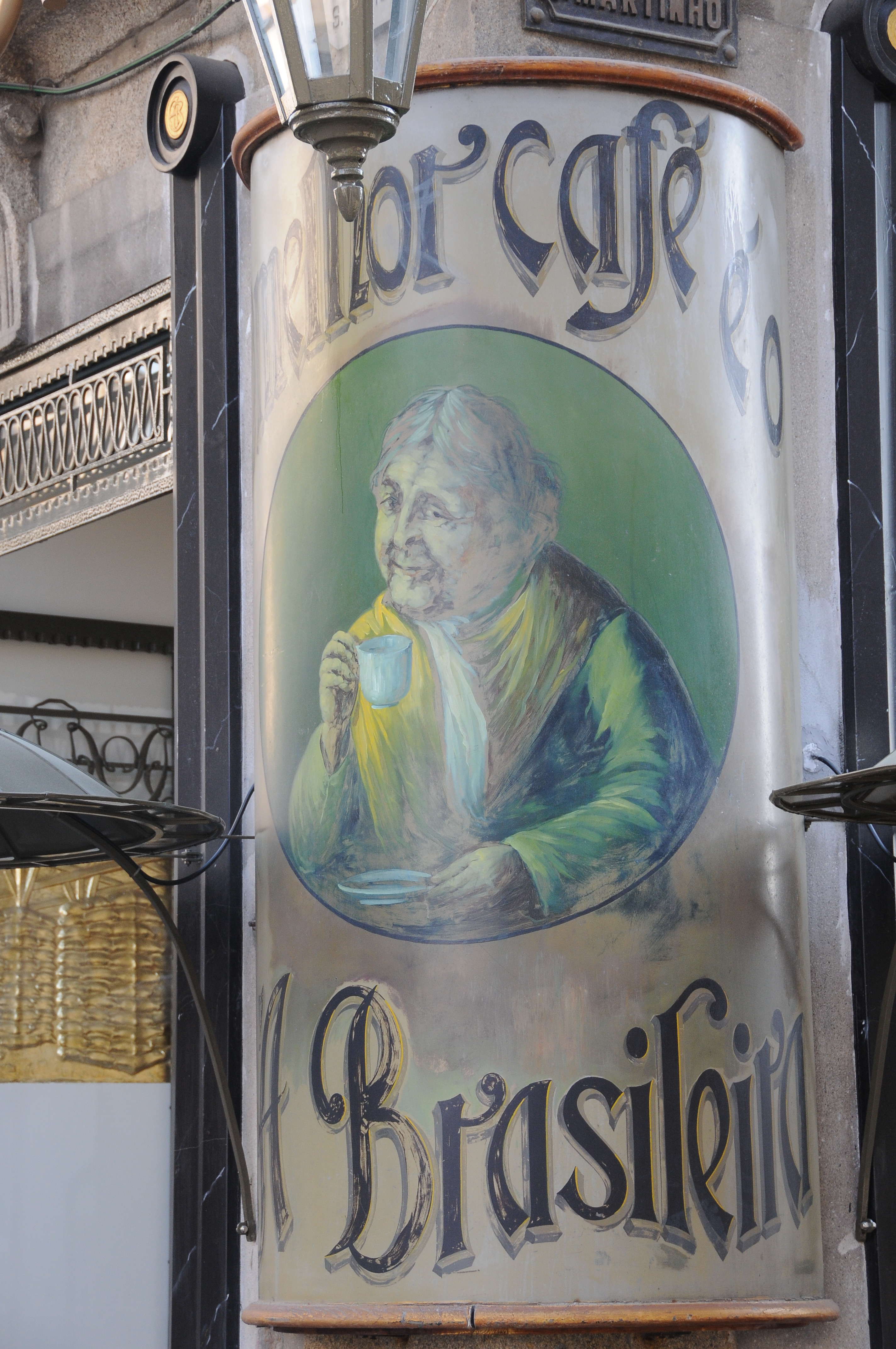 A Brasileira is one of the oldest and most famous cafés in Braga, Portugal.